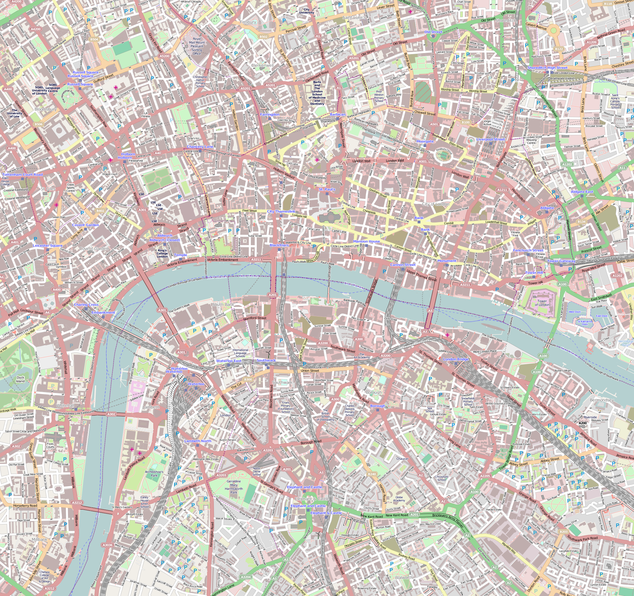 Map of London & Westminster1 Geographic limits: N: 51.528° S: 51.4889° W: -0.1332° E: -0.0664°